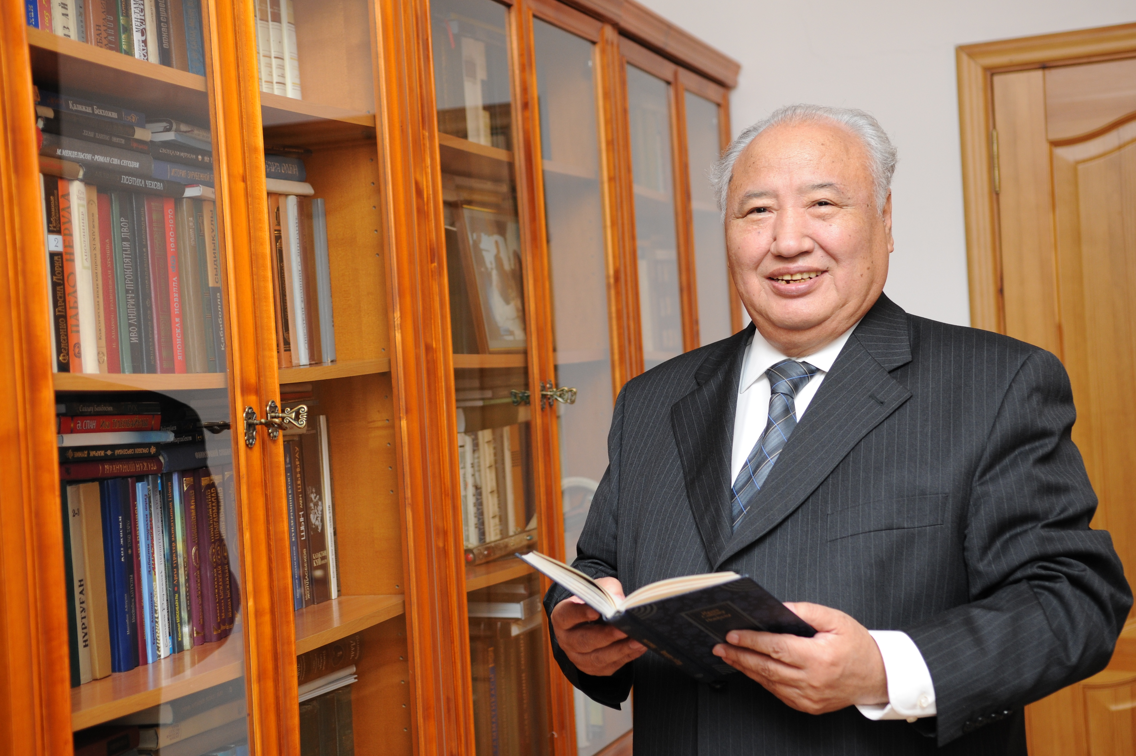 Abish Kekilbayev.